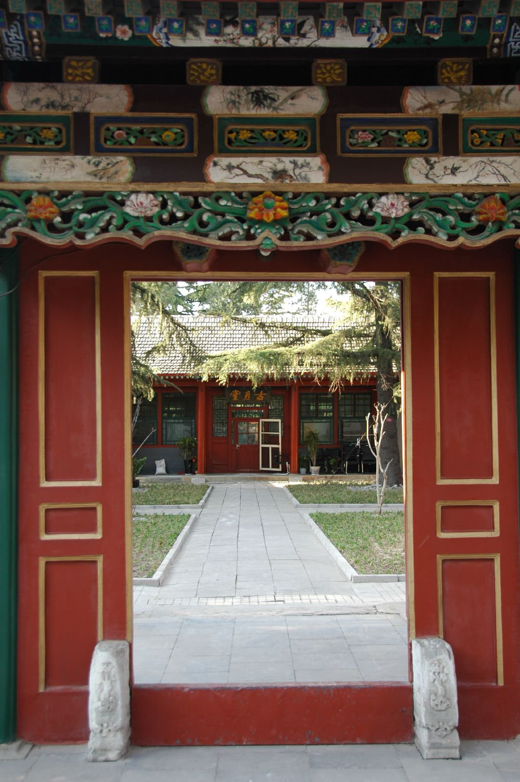 The Tsinghua University campus in Beijing, China